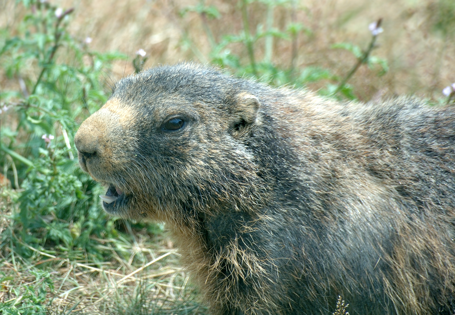 This image shows the head of an Alpine Marmot (Marmota marmota). This photo has been taken at the Pfänder mountain in Austria.